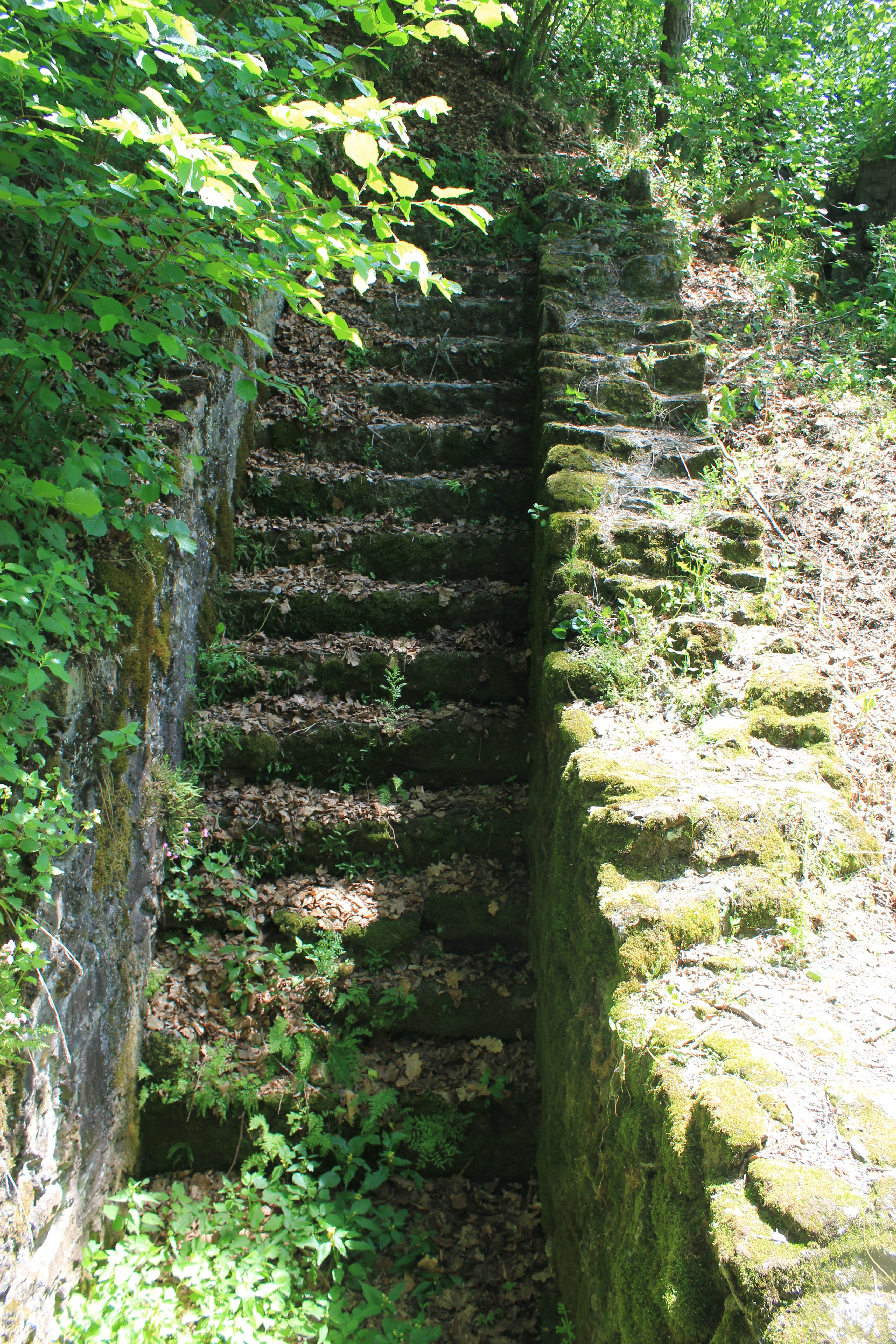 Mars-Latobius-Sanctuary near Sankt Paul im Lavanttal